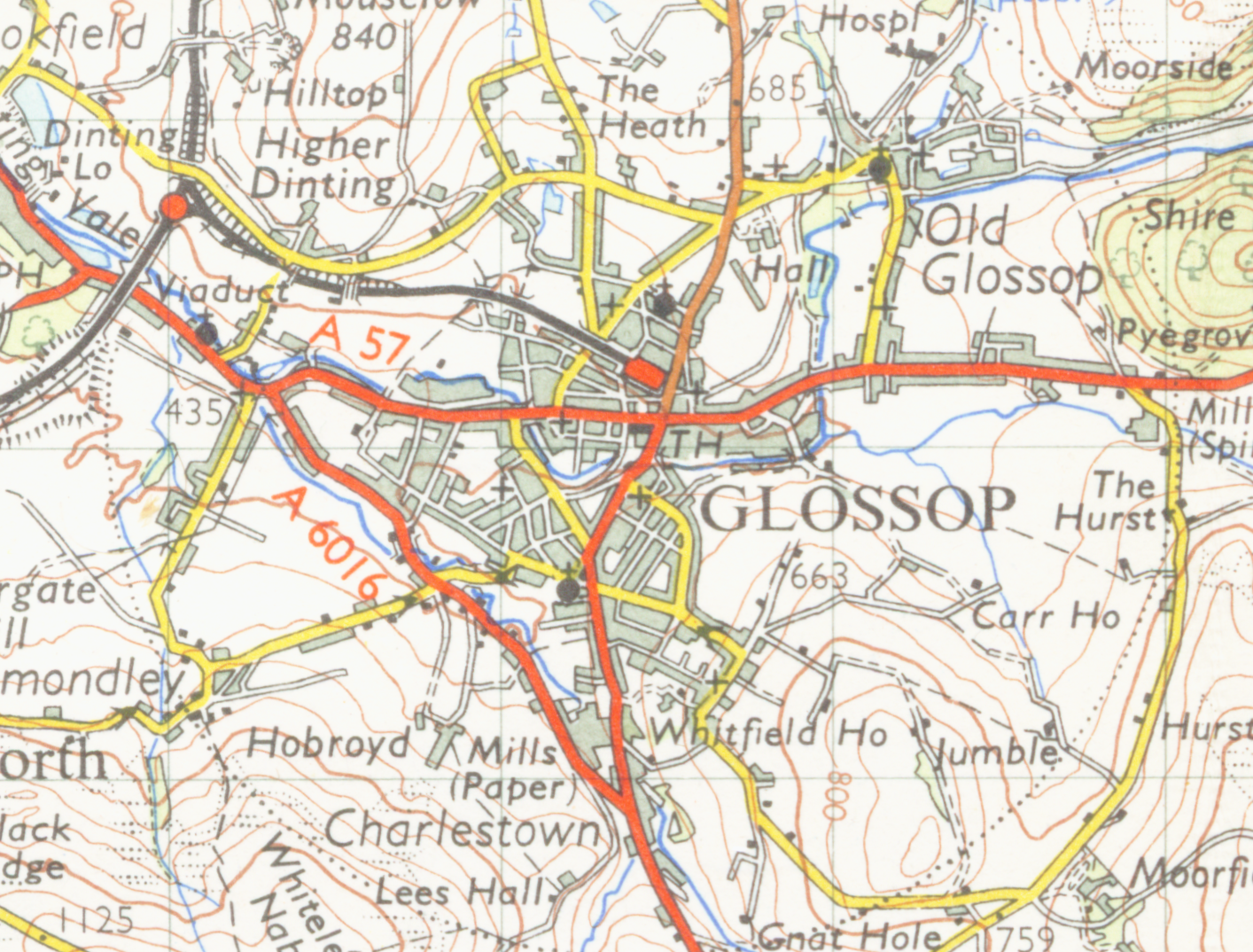 Map of Glossop from 1954. Scale 1 inch to the mile 600DPI Sheet 102 "Huddersfield" series 7